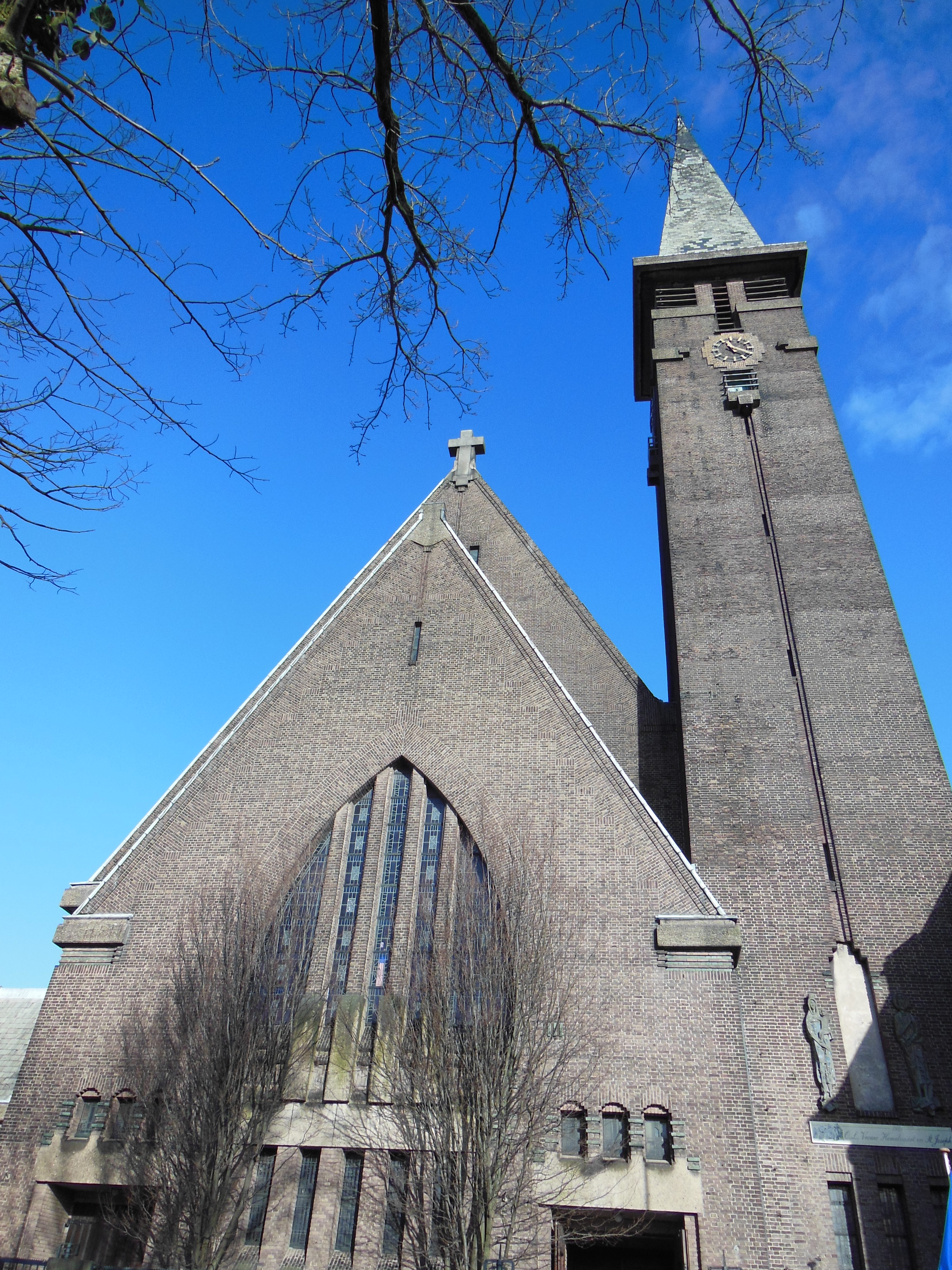 Front view of the St. Joseph church in Leiden (Netherlands)